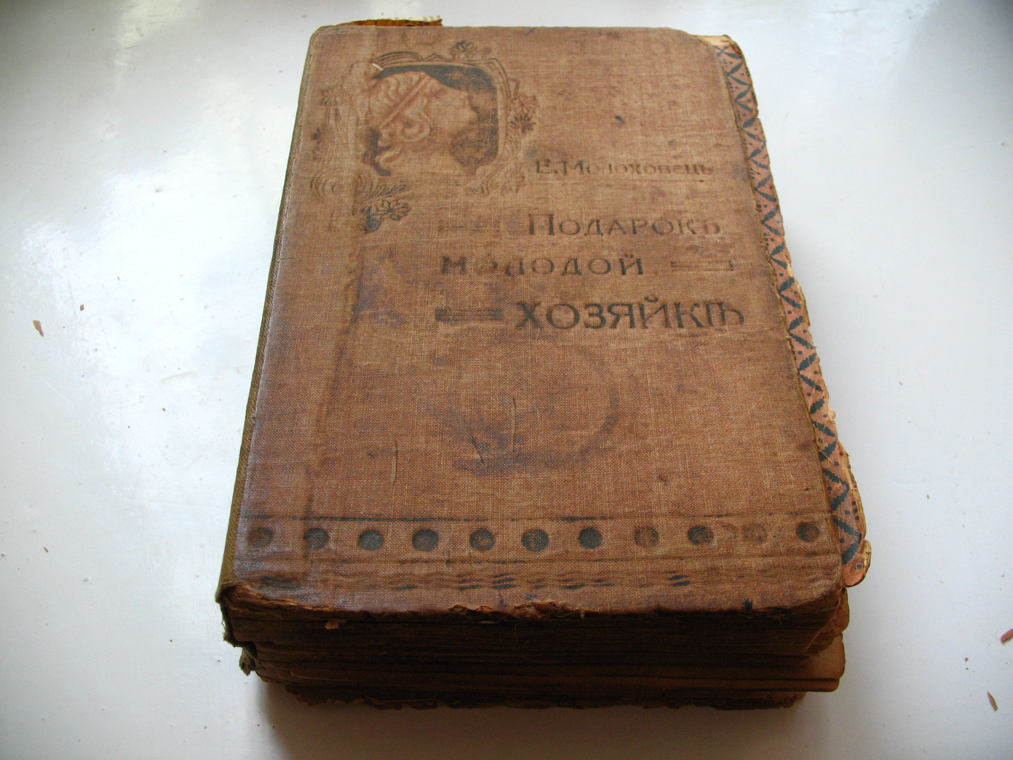 The 29th edition of "A Gift to Young Housewives" by E. Molokhovets, 1917